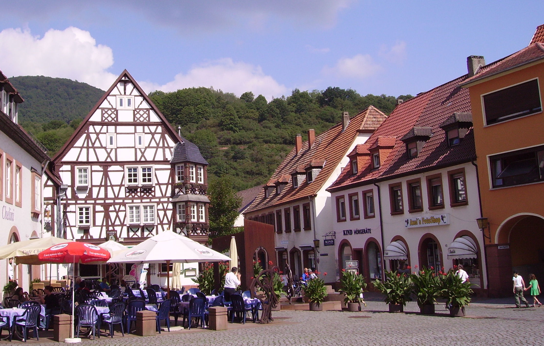 view of Annweiler, Germany